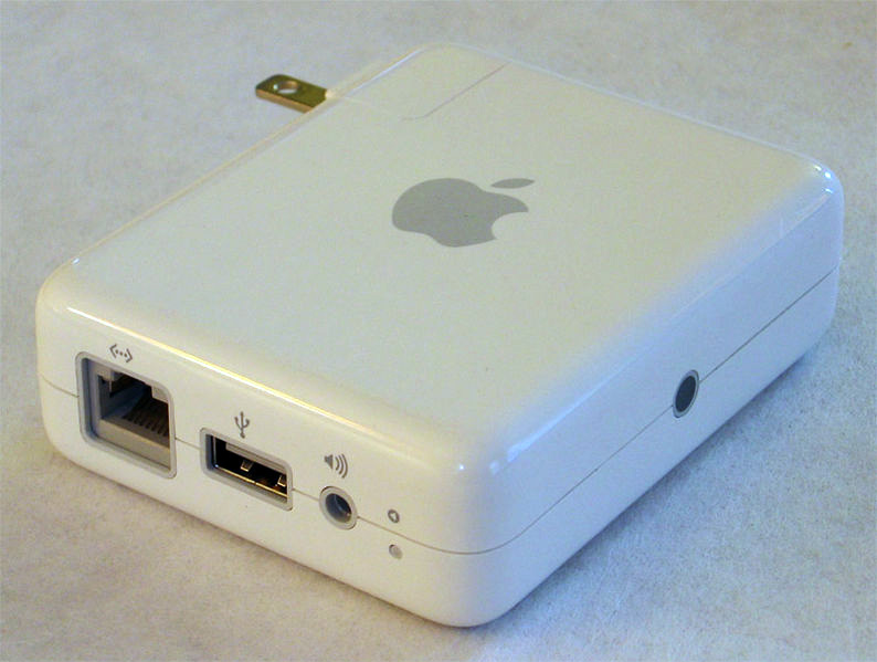 Photograph of Apple AirPort Express